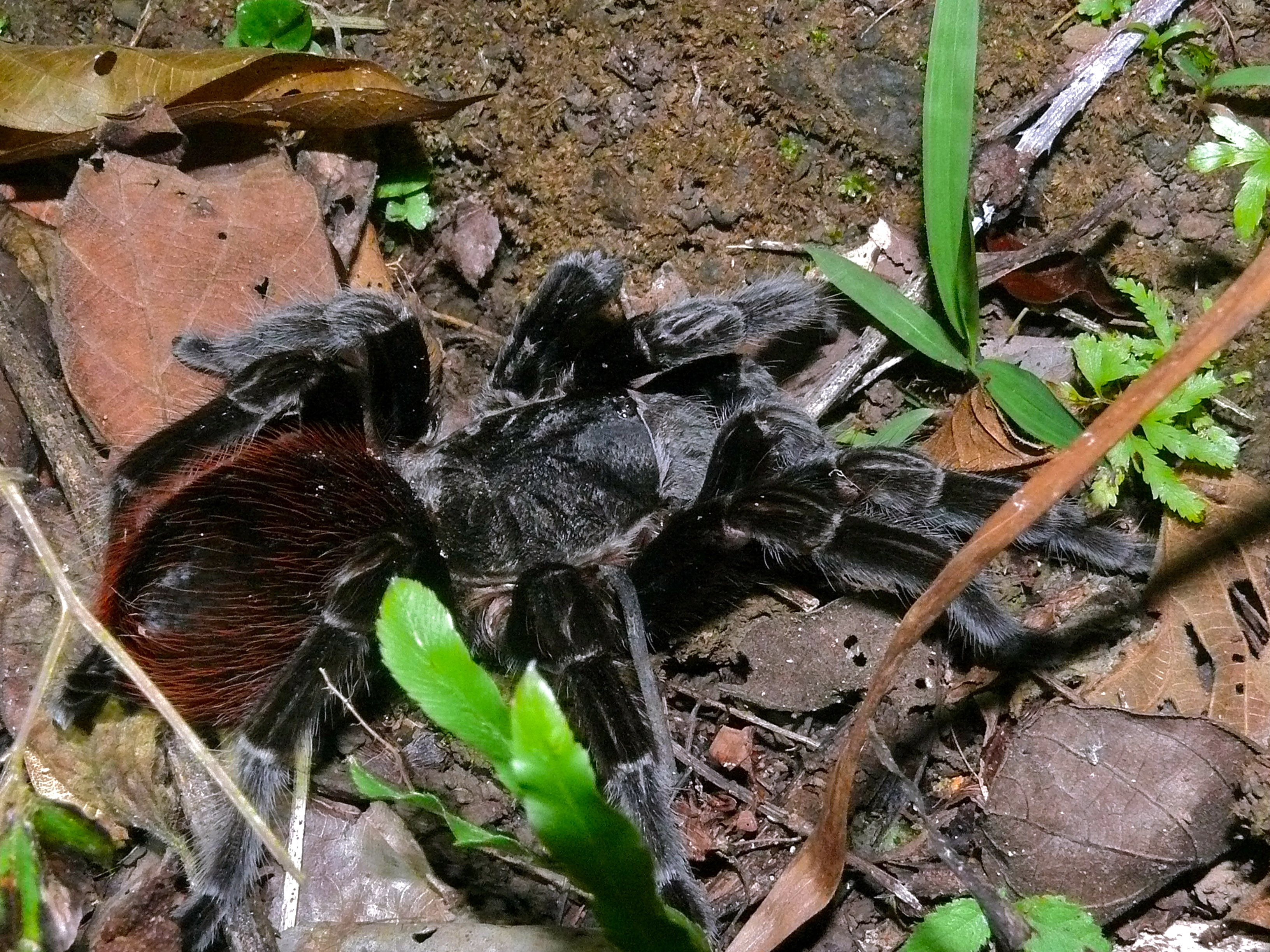 Black Rock Lodge, San Ignacio, BELIZE